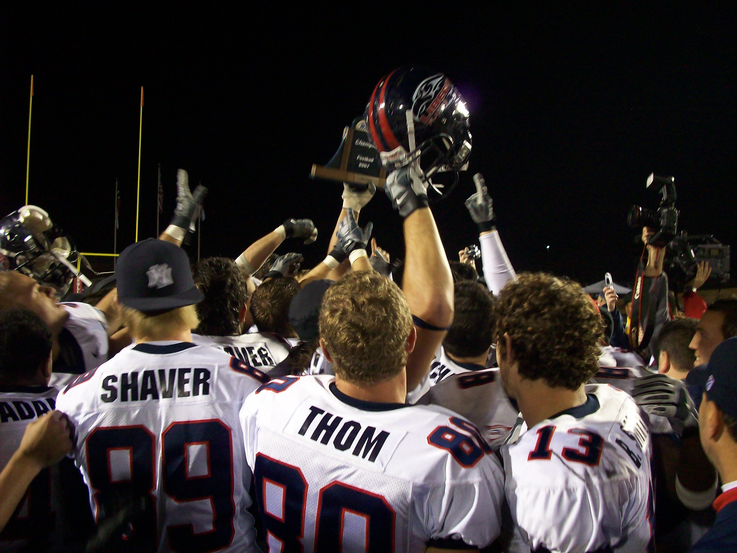 Picture of Liberty University football team winning the Big South Championship